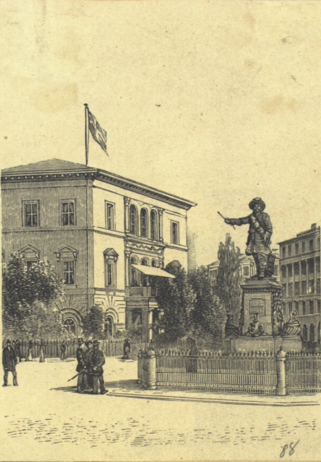 Drawing of the statue of Niels Juel at Holmens Kanal in Copenhagen, Denmark